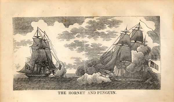 Wood engraving, about 3.5" X 6.5" on paper that is 5" by 8"